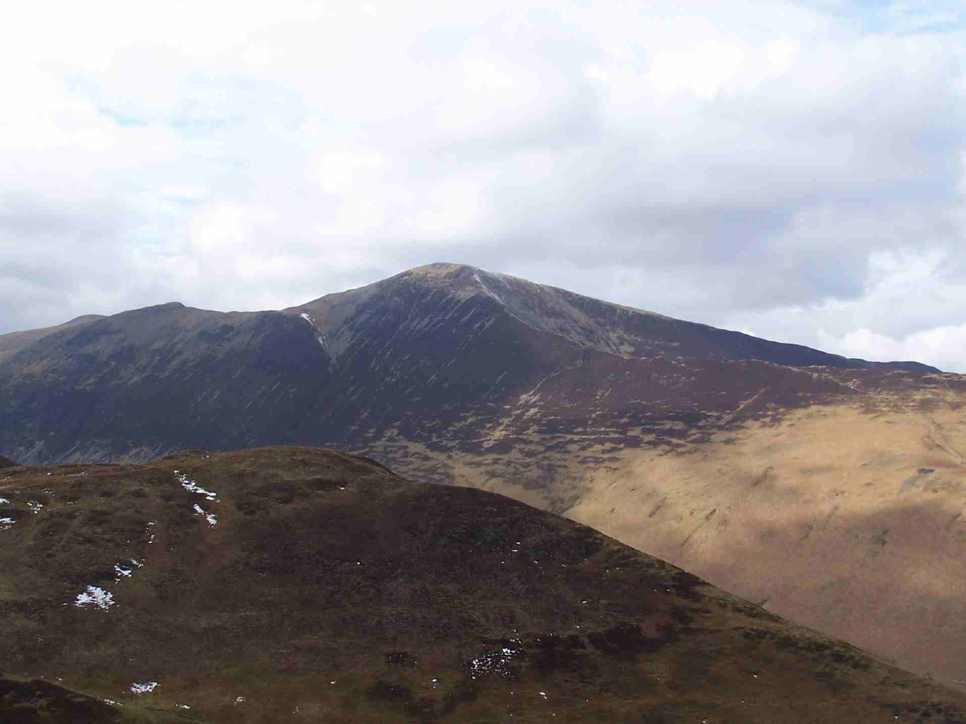 Personal photograph taken on March 20th 2006 by Mick Knapton